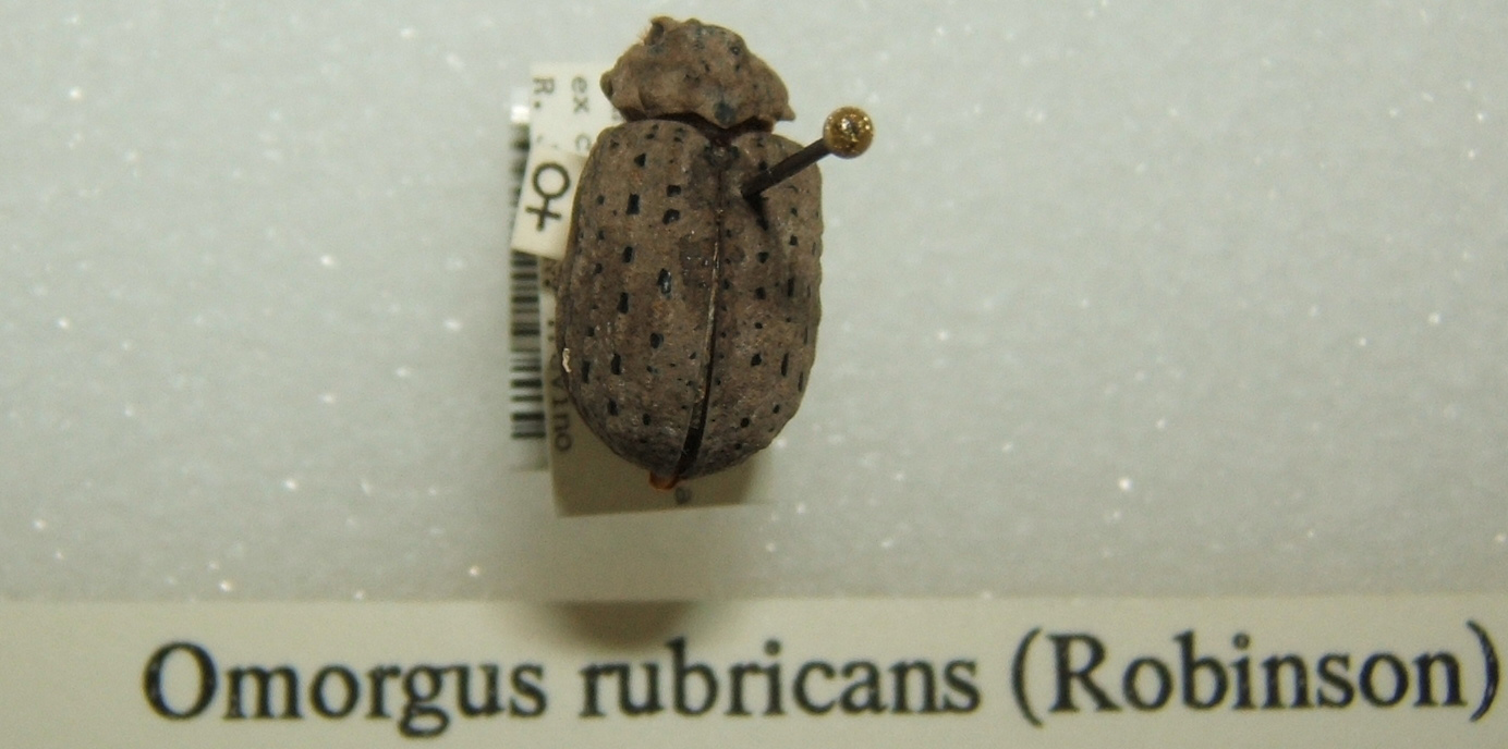 Omorgus rubricans adult female taken by Shawn Hanrahan at the Texas A&M University Insect Collection in College Station, Texas.